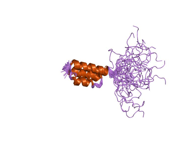 Cartoon representation of the molecular structure of protein registered with 1gjs code.